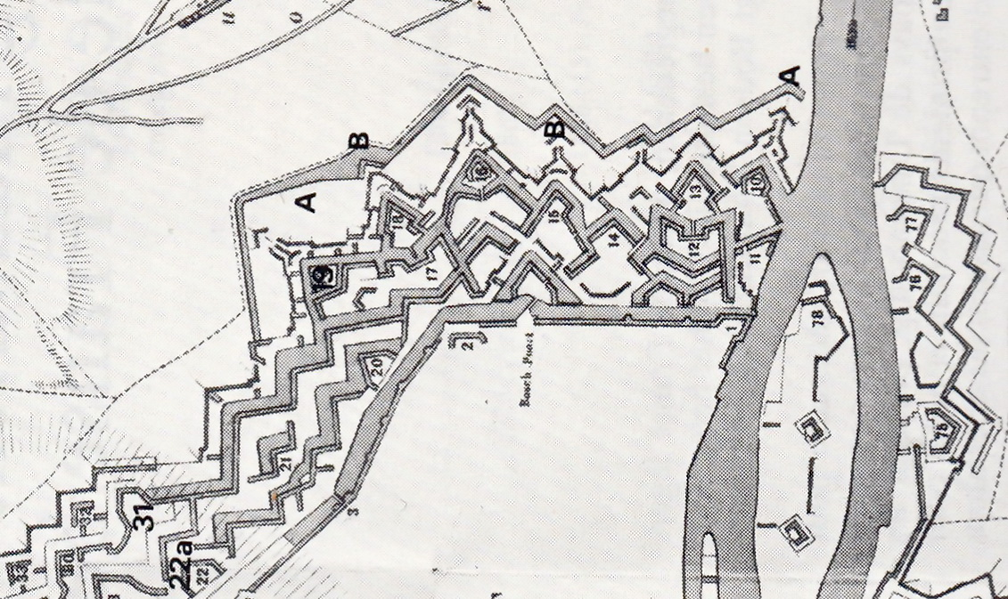 Maastricht, the Netherlands. Detail of a map of 1794 with the northern section of the fortifications, shortly before their renewal (1816-1821).